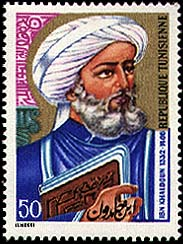 A rendition of Ibn Khaldoun holding a book